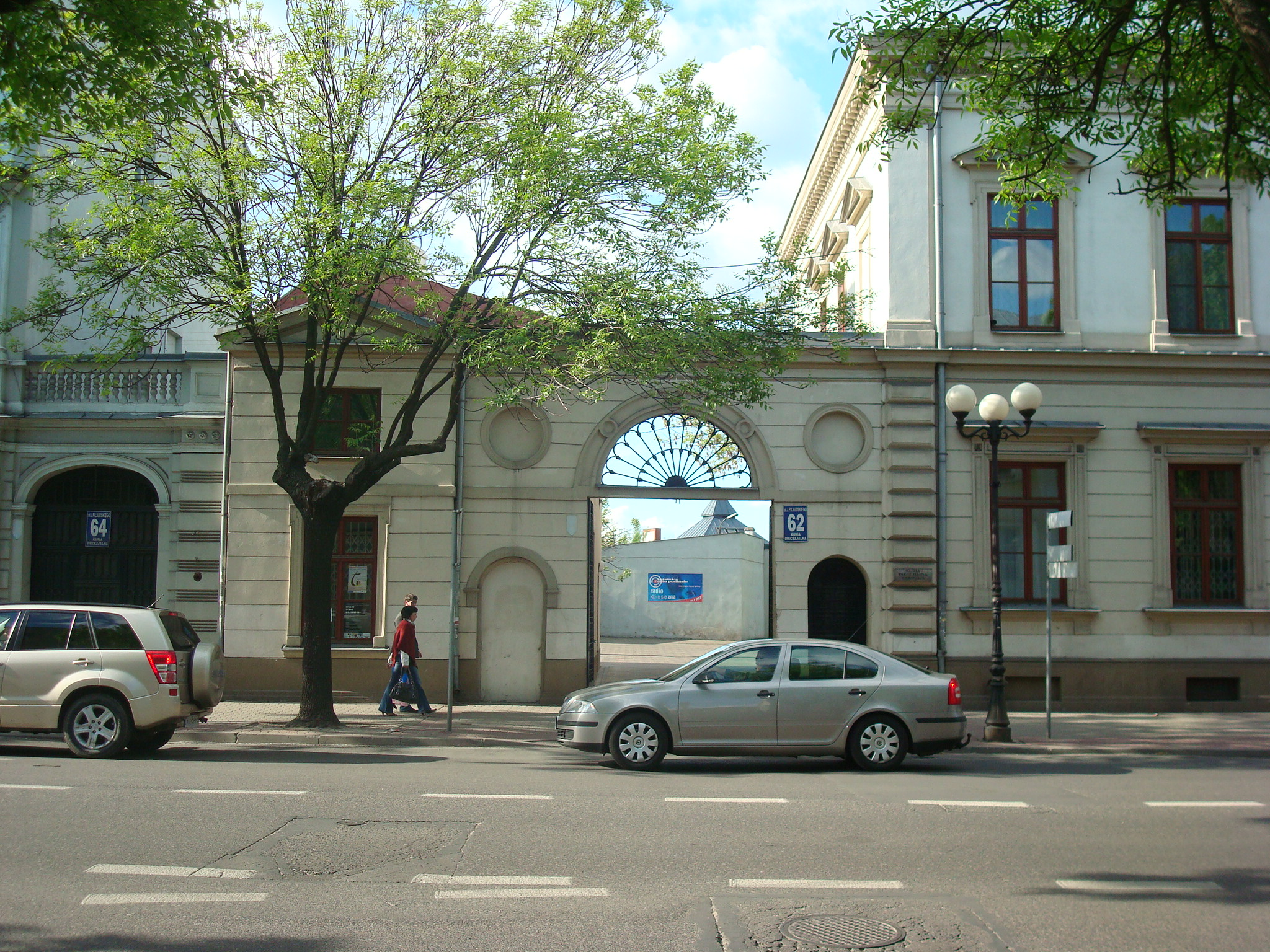 Decorative gate at electoral group in Siedlce